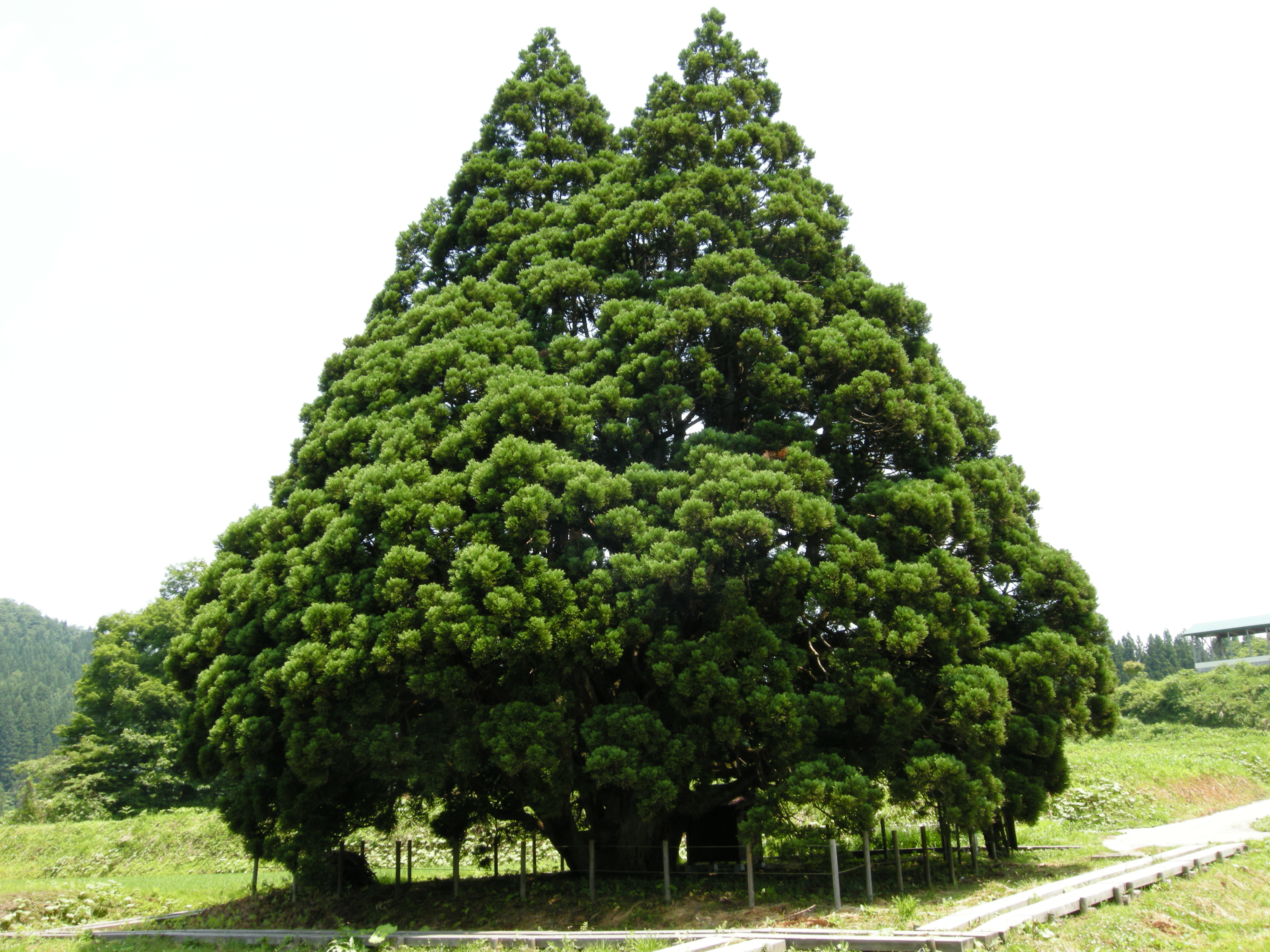 Tree of Totoro